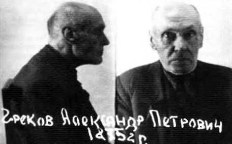 Oleksander Hrekov (1875-1958) - general of the Imperial Russian Army, Ukrainian People's Army, military professor. 1948-1956 prisoner of Soviet Gulag